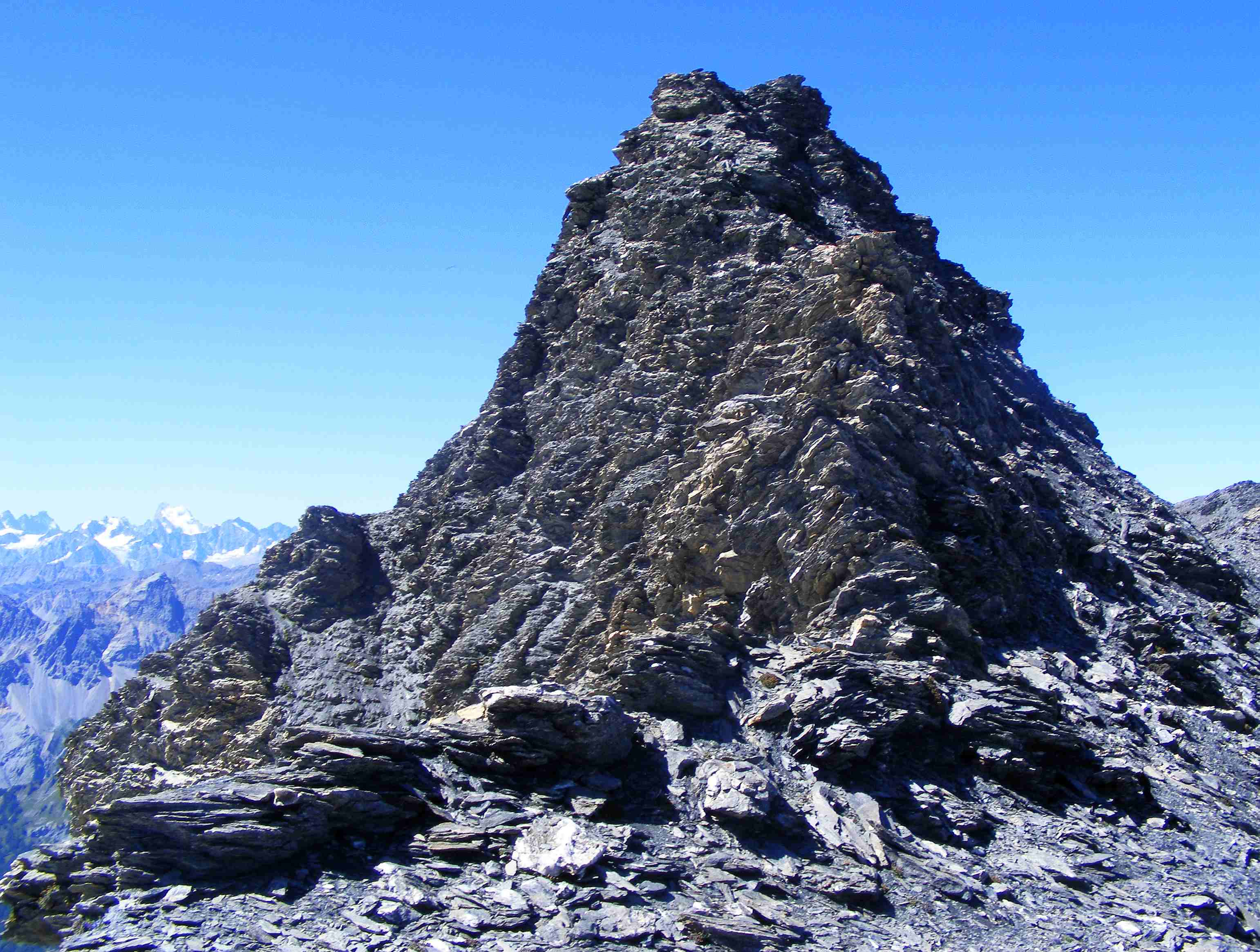 Cima del Vallone (French/Italian border, Cottian Alps) as viewed from east